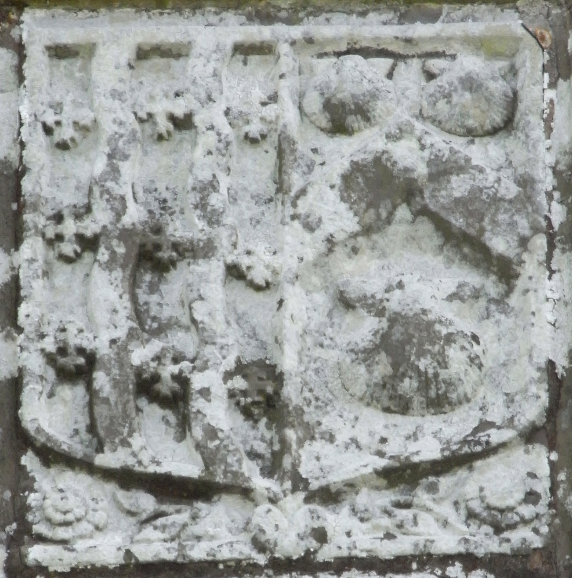 1654 sculpted stone heraldic escutcheon, Bremridge mansion, Filleigh, North Devon. High above the front door inset into the wall is a stone heraldic displaying the arms of Dodderidge (Argent, two pales wavy azure between nine crosses croslet gules) impaling Pollard (Argent, a chevron sable between three escallops gules)